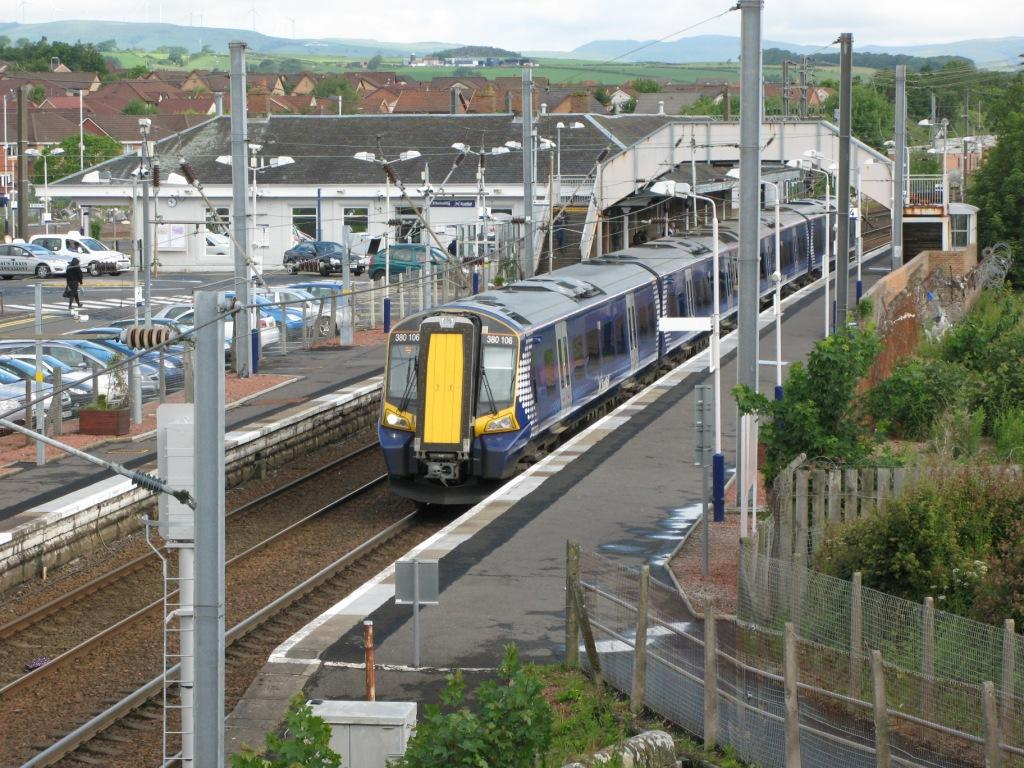 First ScotRail's 380106 pulls away from Kilwinning station on its way from Glasgow to Ayr.